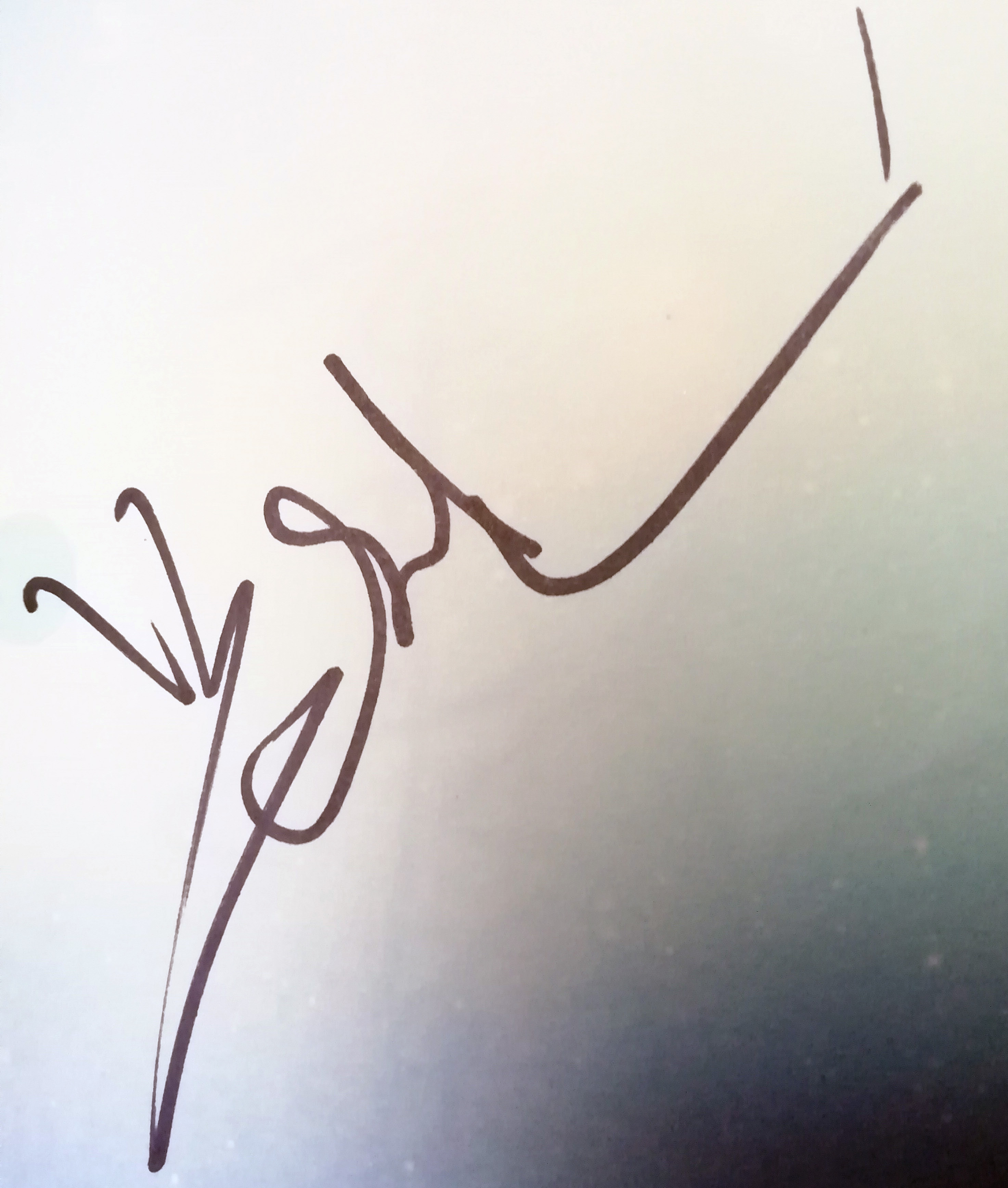 This is Eddie Kwan's signature.